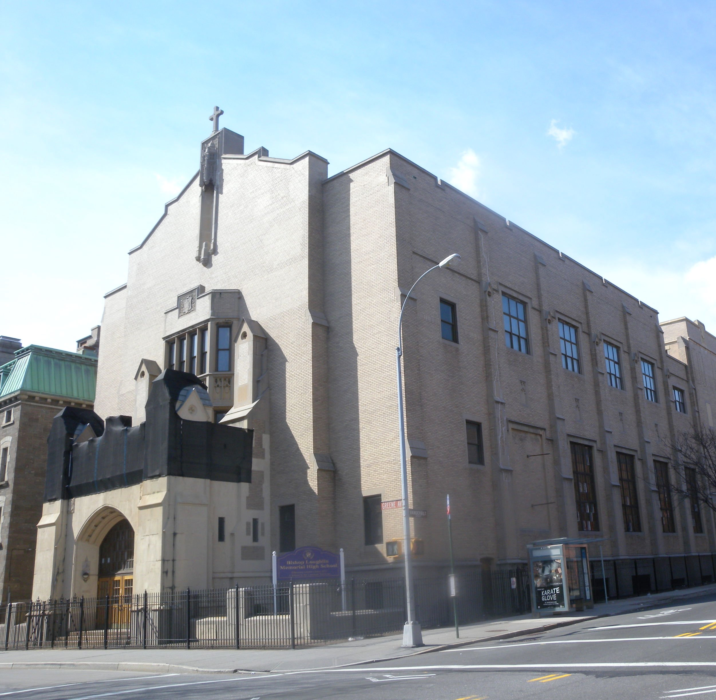 Looking northwest across Vanderbilt and Greene Avenues on a mostly sunny afternoon at Bishop Loughlin Memorial High.